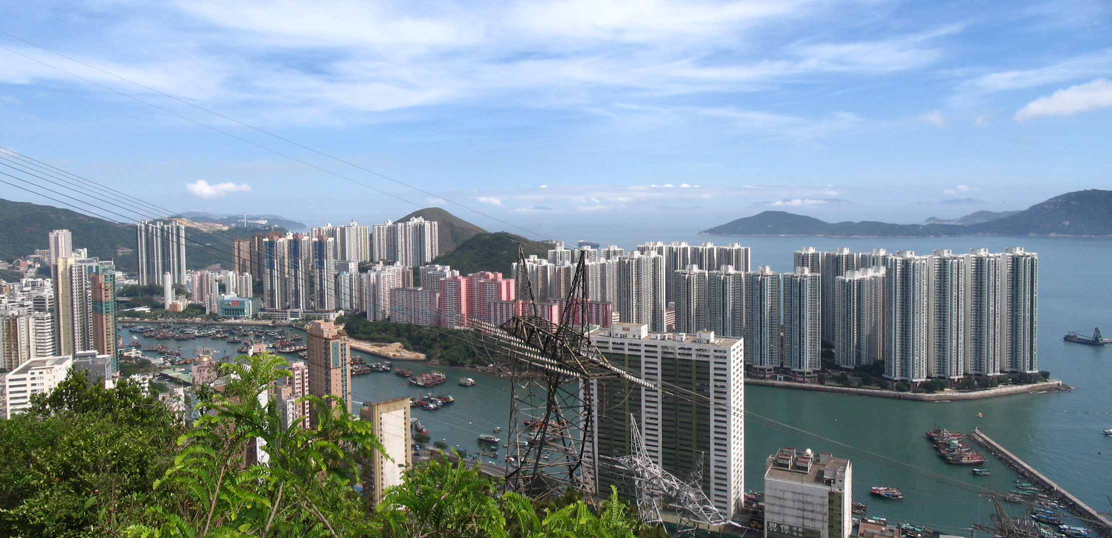 Panoramic photo of Ap Lei Chau, combined from 2465447754 and 2464614935